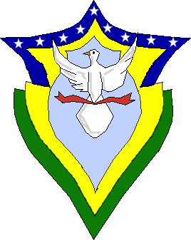 Coat of arms of the Colombian municipality of El Molino Public domain. Created in 1595.